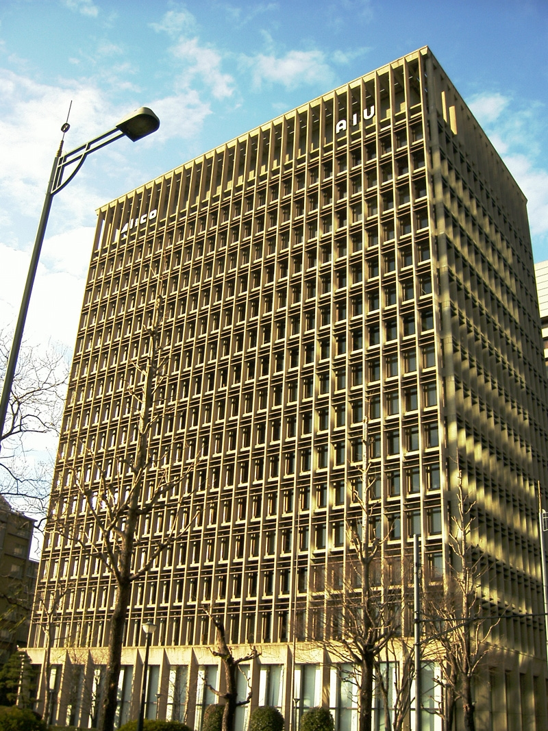 “ALICO:American Life Insurance Company” Japan office